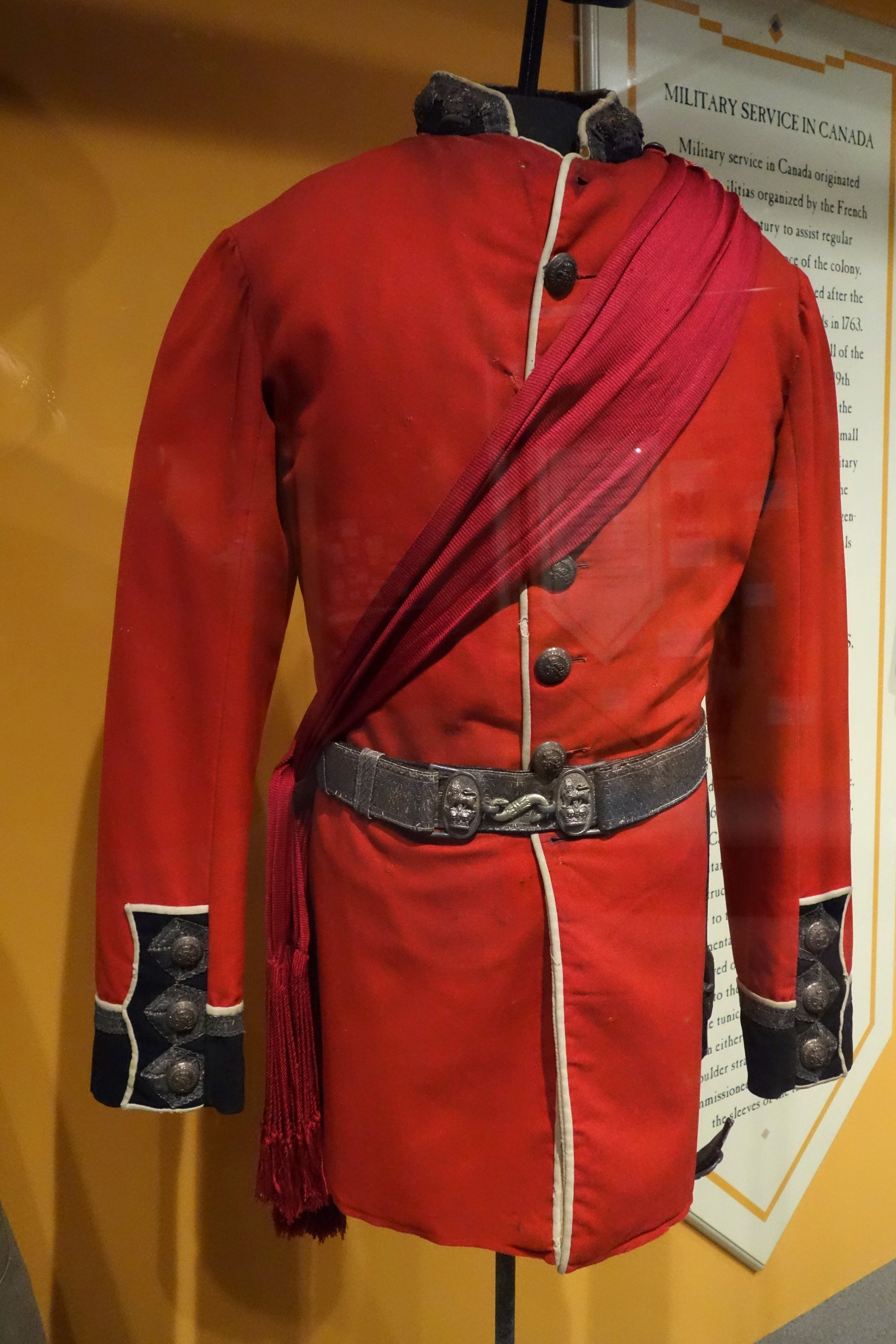 Exhibit in the Glenbow Museum, 130 9th Ave S.E., Calgary, Alberta, Canada. This government military uniform is in the public domain.